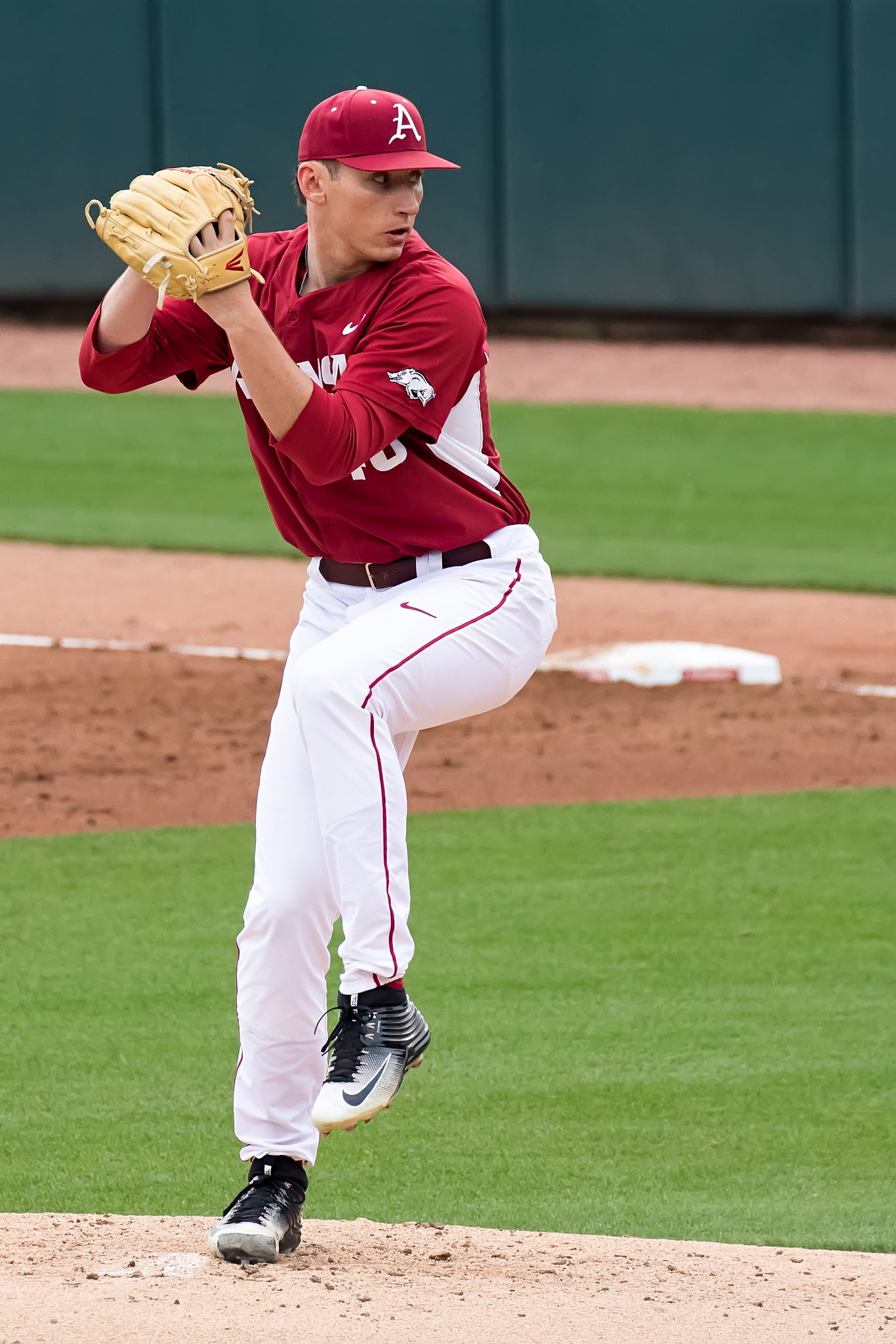 Trevor Stephan, Arkansas Razorback Baseball Pitcher. Arkansas vs. Ole Miss